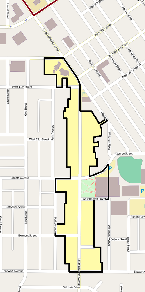 Map showing the boundaries of the South Oakdale Historic District in Medford, Oregon, United States. The historic district is listed on the US National Register of Historic Places. Boundary data is derived from the metes and bounds description in: Bryden, Vicki Anne (August 1978), National Register of Historic Places Inventory — Nomination Form: South Oakdale Historic District (PDF). Additional sources informing the drawing of district boundaries include: City of Medford (May 1, 2007) (PDF). Medford Historic Districts (Map). Jackson County. Property Data Online. Black boundary/yellow area: La Grande Commercial Historic District boundaries. Brown boundary/tan area: Boundaries of the nearby Medford Downtown Historic District (top).